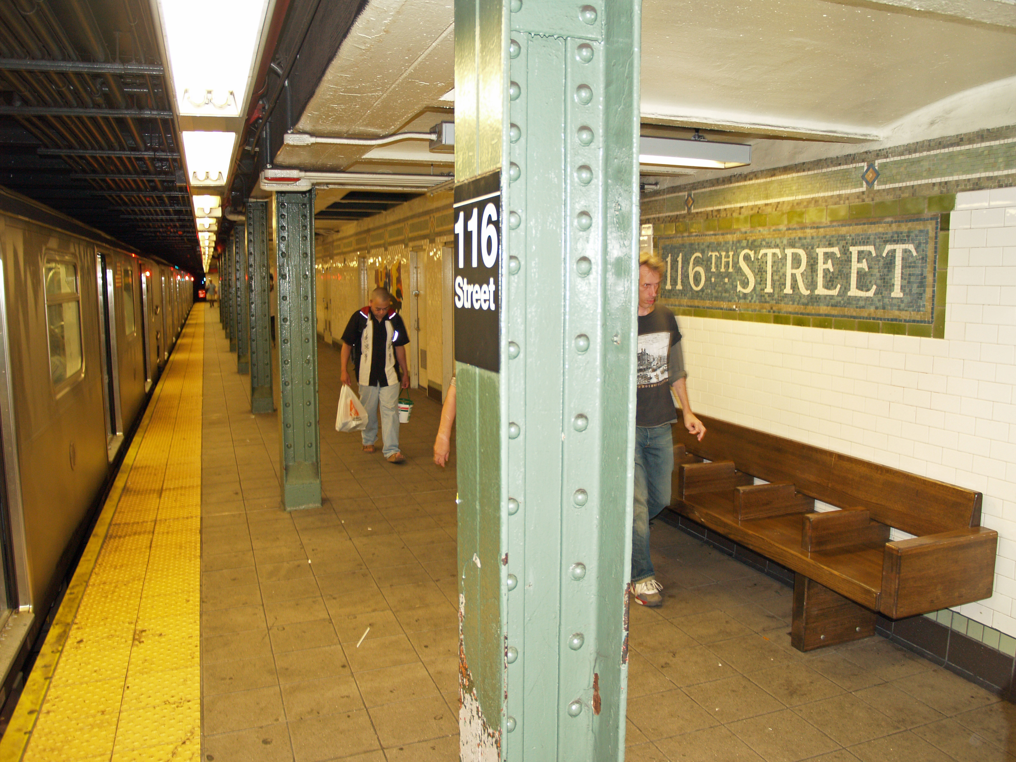 116th Street (IRT Lexington Avenue Line) by David Shankbone.jpg